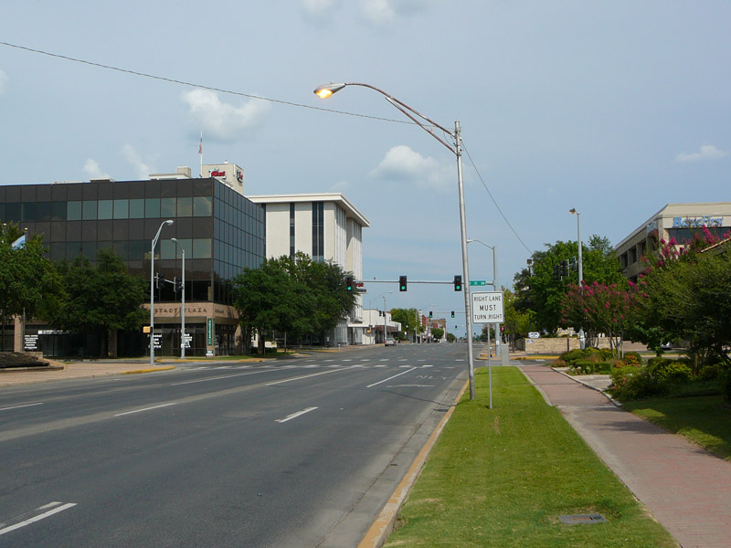 View of Downtown Ardmore, Oklahoma in 2007.